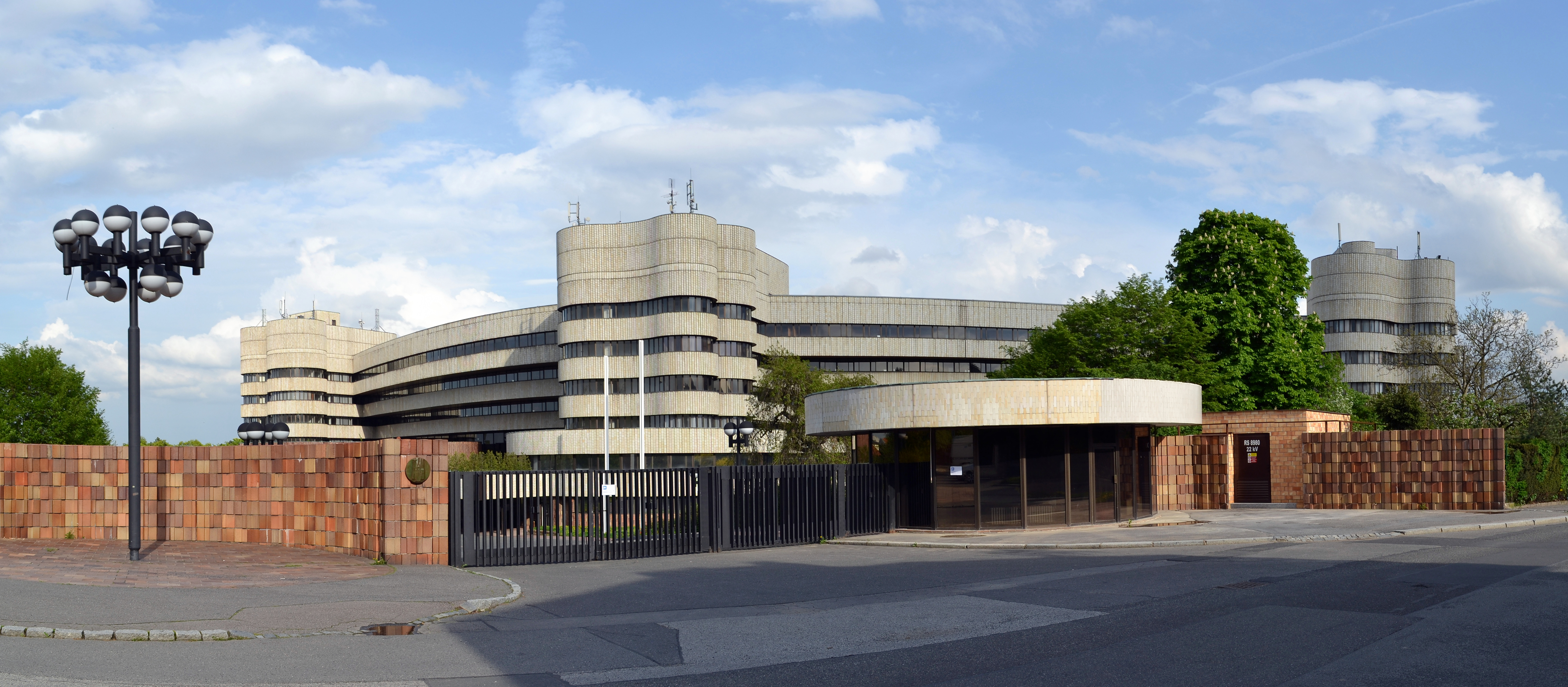 Hotel Praha, Dejvice, Prague 6, Czech Republic. View from Sušická street.